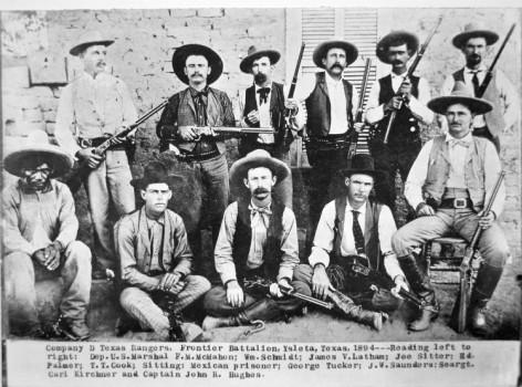 Caption: Company D, Texas Rangers, Frontier Battalion, Ysleta, Texas, 1894 --- Reading left to right [standing]: Dep. U.S. Marshal F.M. McMahon; Vn. Schmidt; James V. Latham; Joe Sitter; Ed Palmer; T.T. Cook; Sitting: Mexican prisoner; George Tucker; J.W. Saunders; Seargt. Carl Kirchner and Captain John R. Hughes.